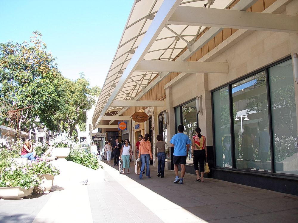 A typical walkway at Stanford Shopping Center, an upscale shopping center near Palo Alto.